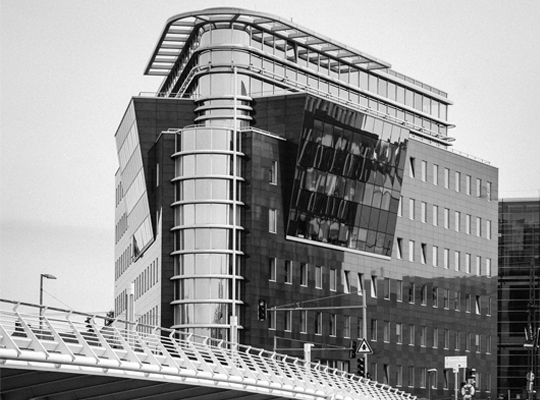 BMW FOUNDATION IN Berlin